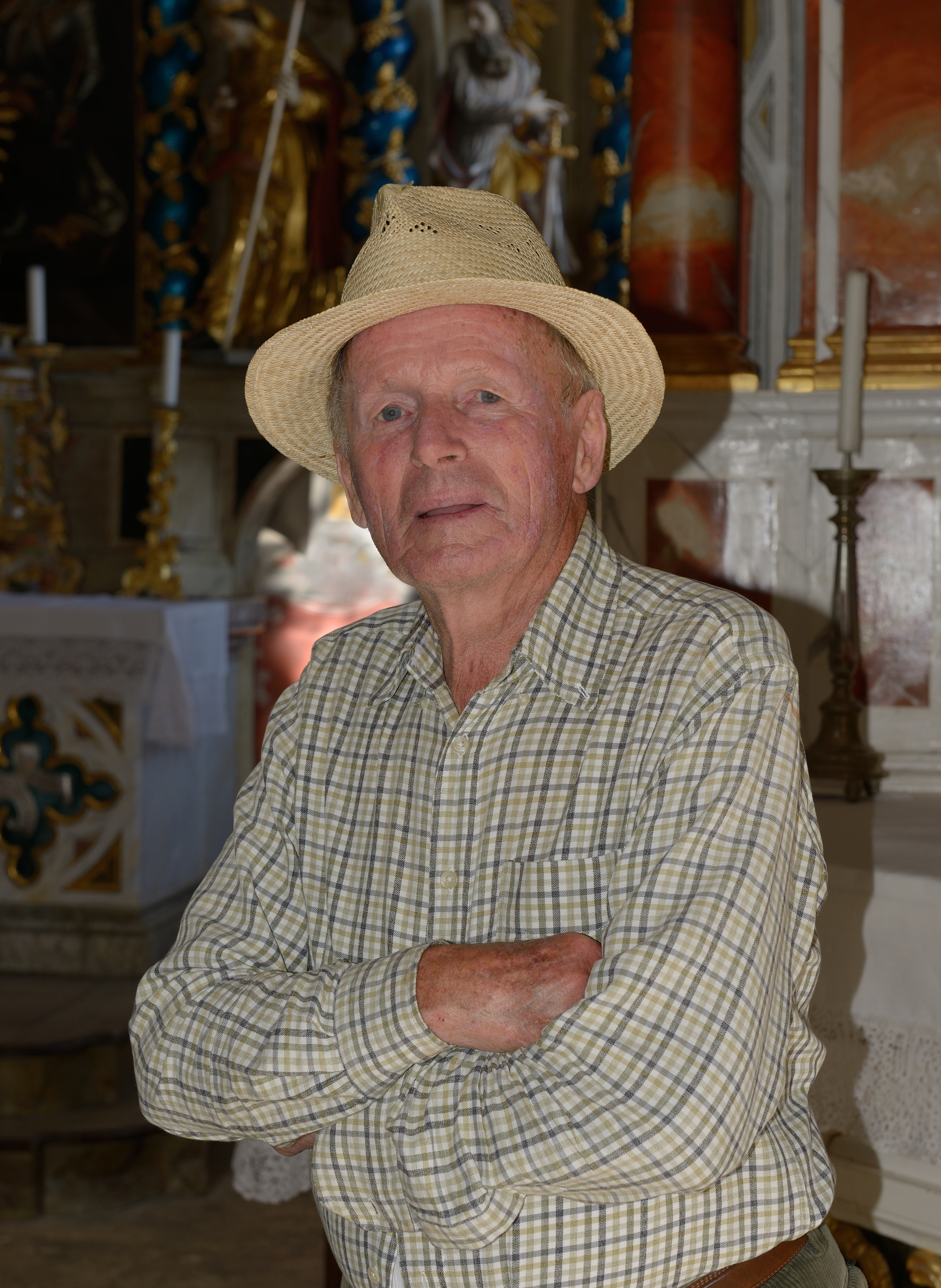 Josef Kostner Sculptor and writer from Gröden, in the St Jacob's Church.